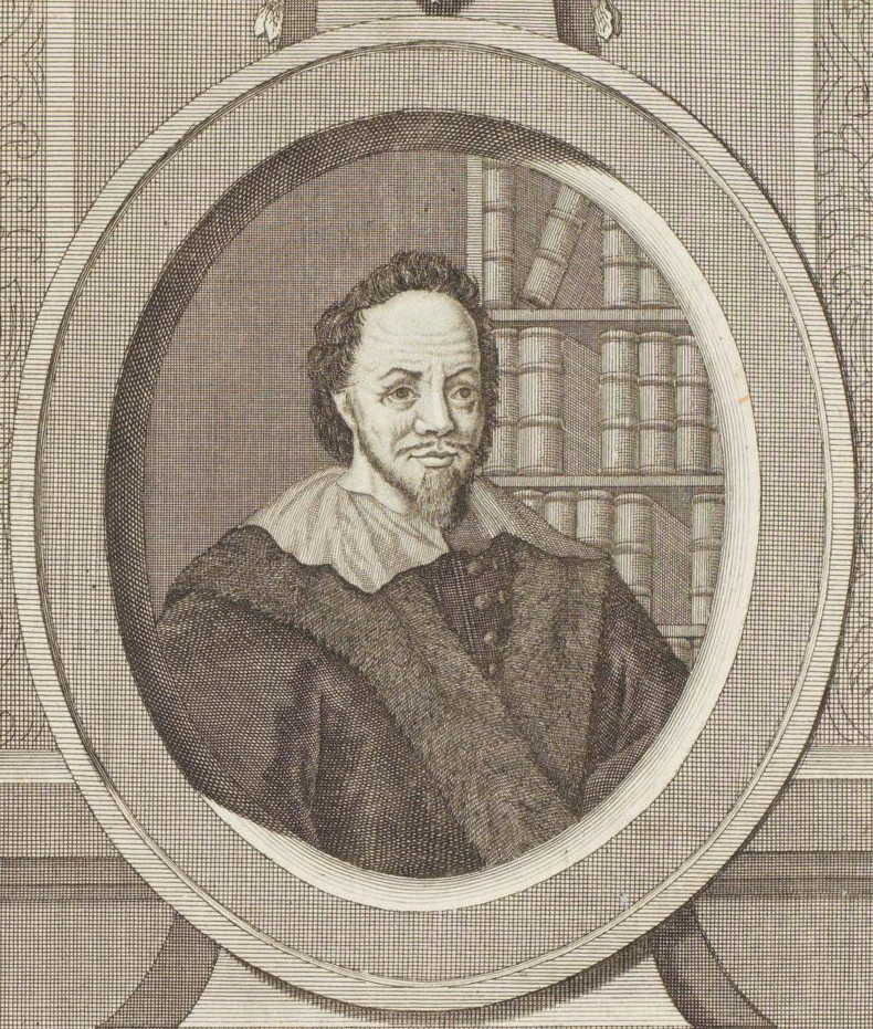 Engraved portrait of Erpold_Lindenbruch, in: in: Monumenta inedita rerum Germanicarum praecipue Cimbriacarum et Megapolensium : quibus varia antiquitatum, historiarum, legum iuriumque Germaniae, speciatim Holsatiae et Megapoleos vicinarumque regionum argumenta illustrantur, supplentur et stabiliuntur ; cum tabulis aeri incisis / e codicibus ... studuit ... et cum praefatione instruxit Ernestus Joachimus de Westphalen .. Band 3, Lipsiae: Martin 1741